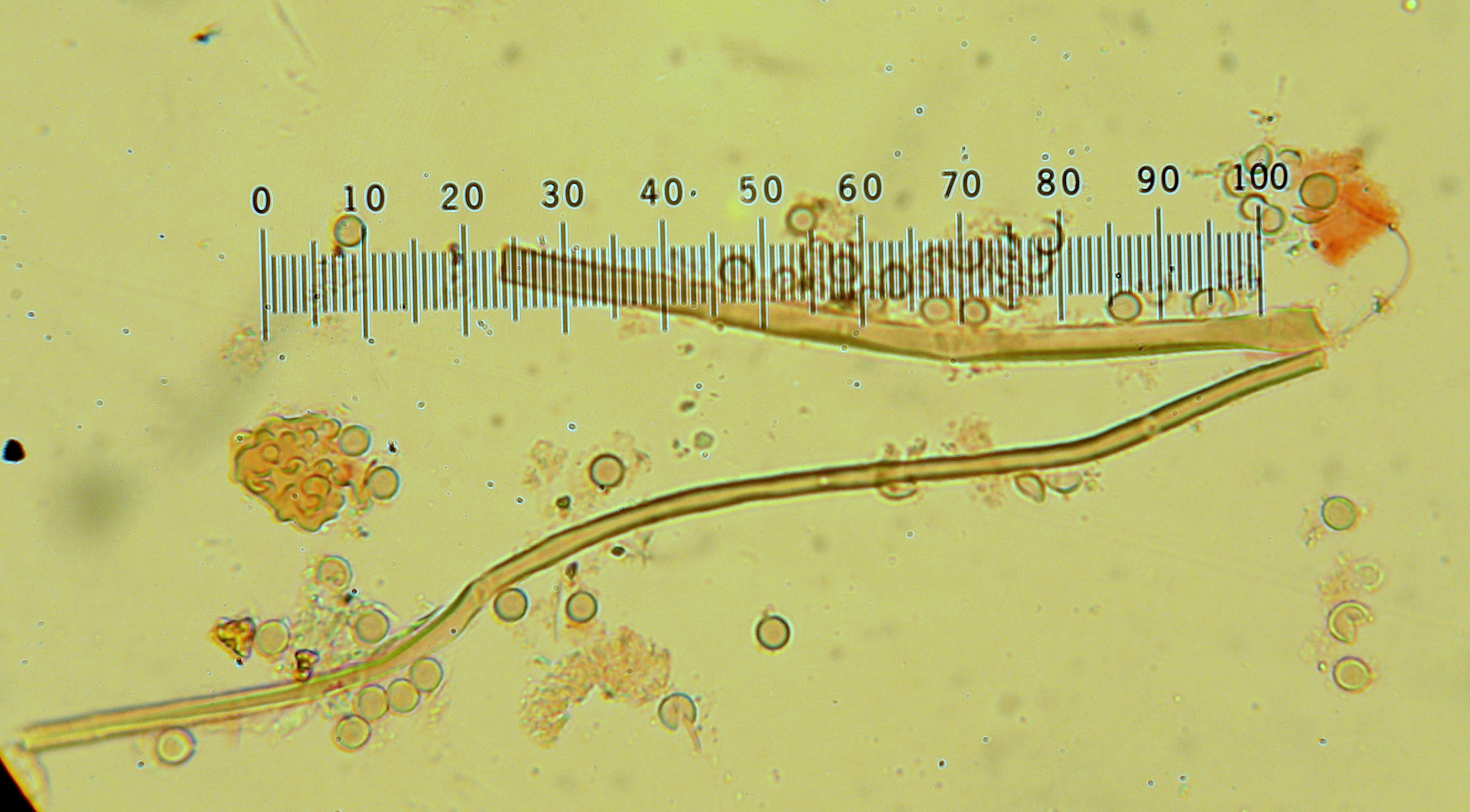 Spores and capillitial threads of the puffball fungus Calvatia craniiformis (Schwein.) Fries.